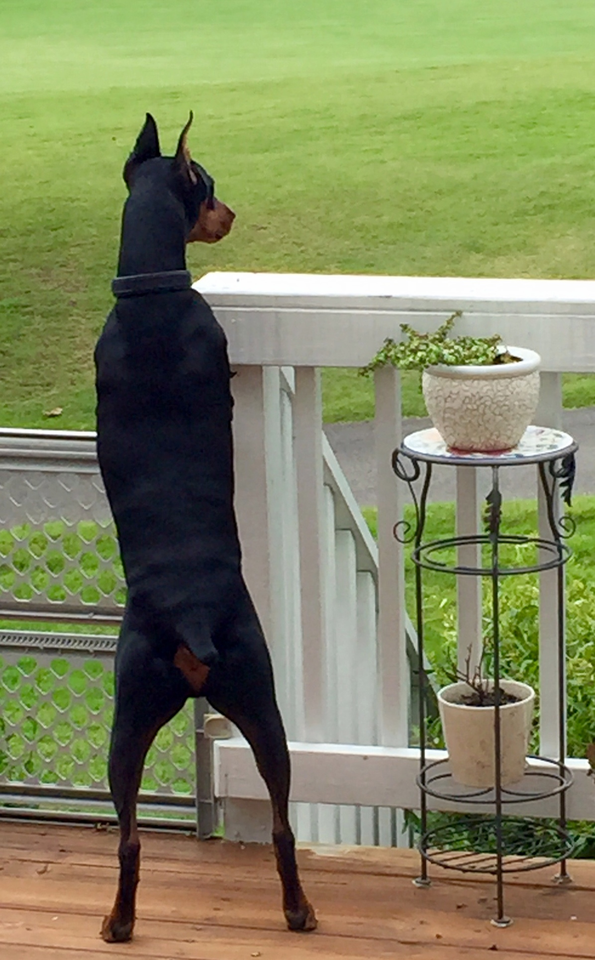 German Pinscher on the lookout